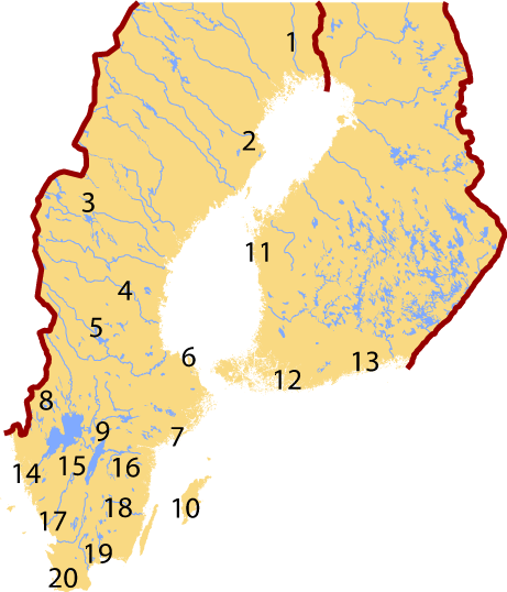 Map of Swedish dialects. Maps of Sweden and Finland adapted from [1] and [2], the International Nuclear Safety Center at Argonne National Laboratory.